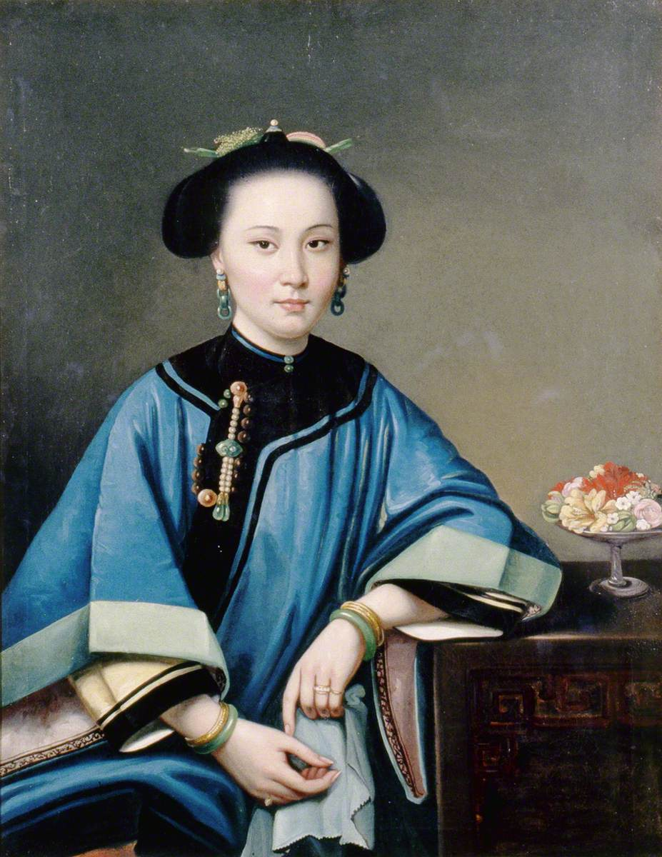 The Fourth Concubine of Hexing (Wo Hing) of Hong Kong